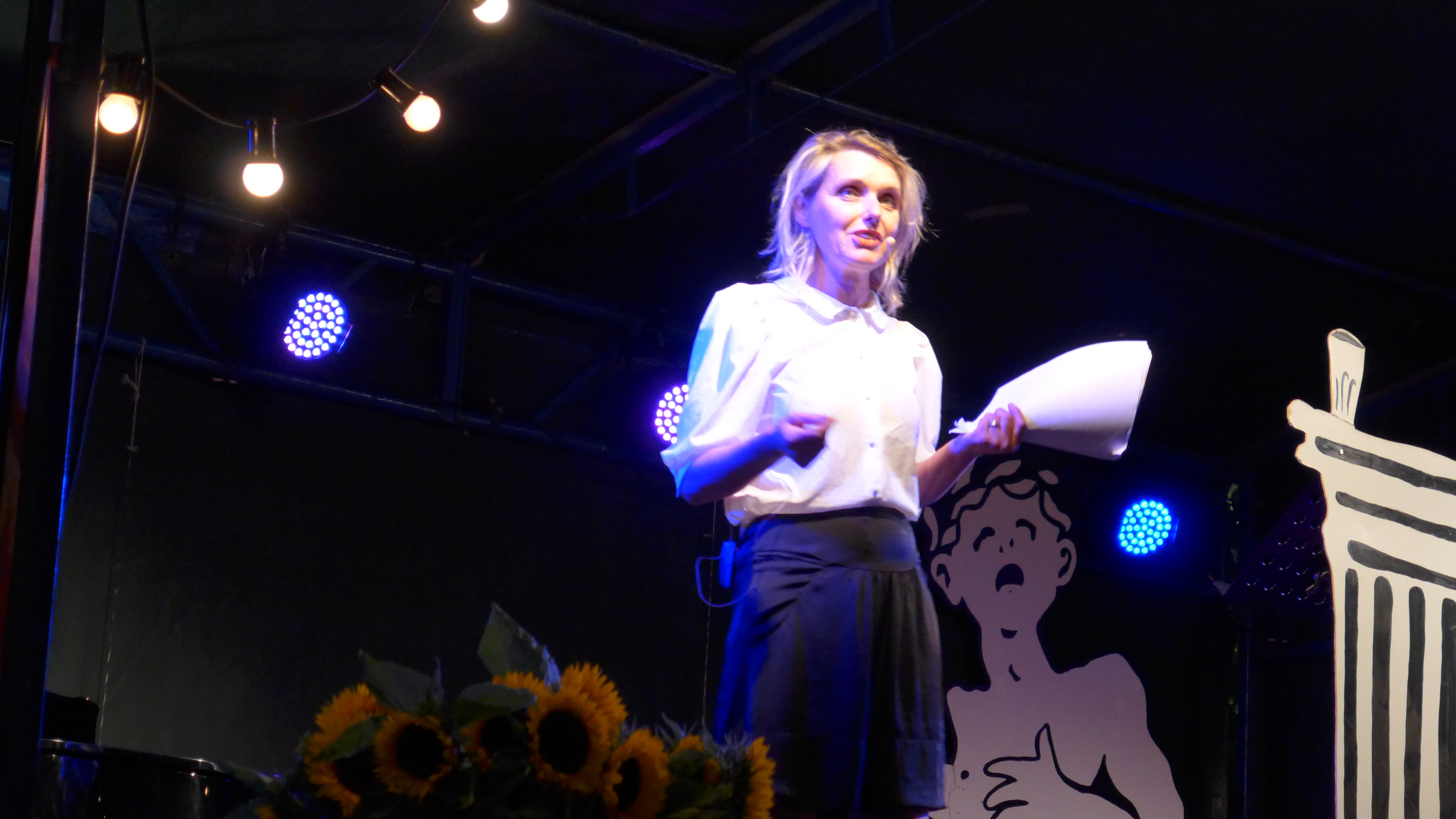 Anne Vegter recites poems at the poetry festival 'Het Tuinfeest', Deventer, August 3 2013